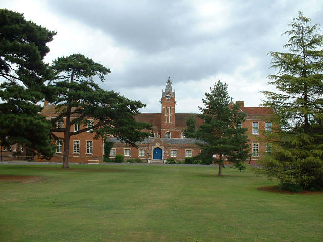 Carew Manor